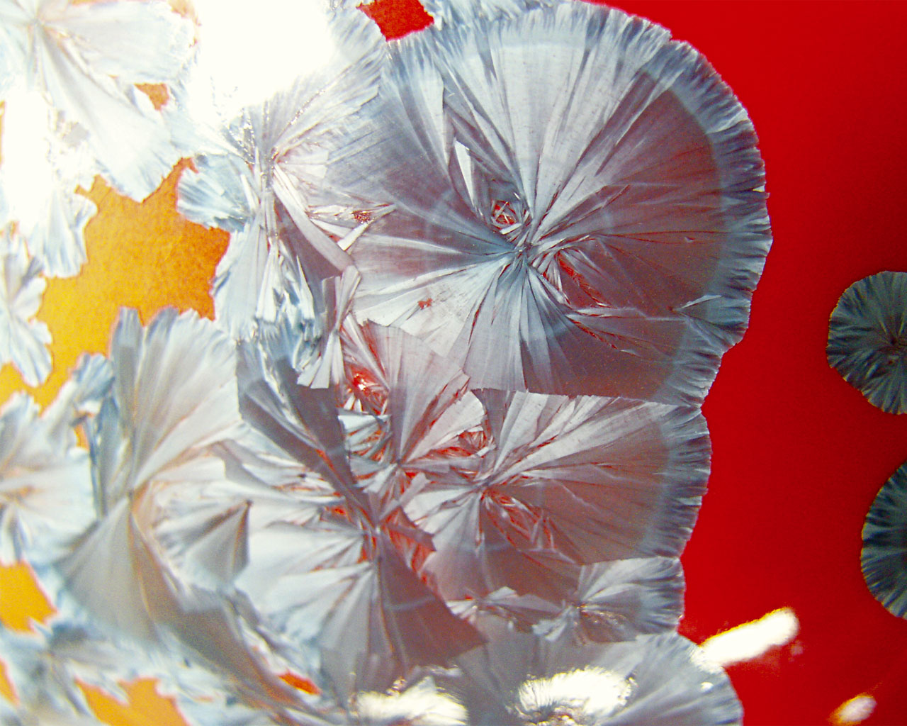 macro crystalline glaze on porcelain by denis caraty